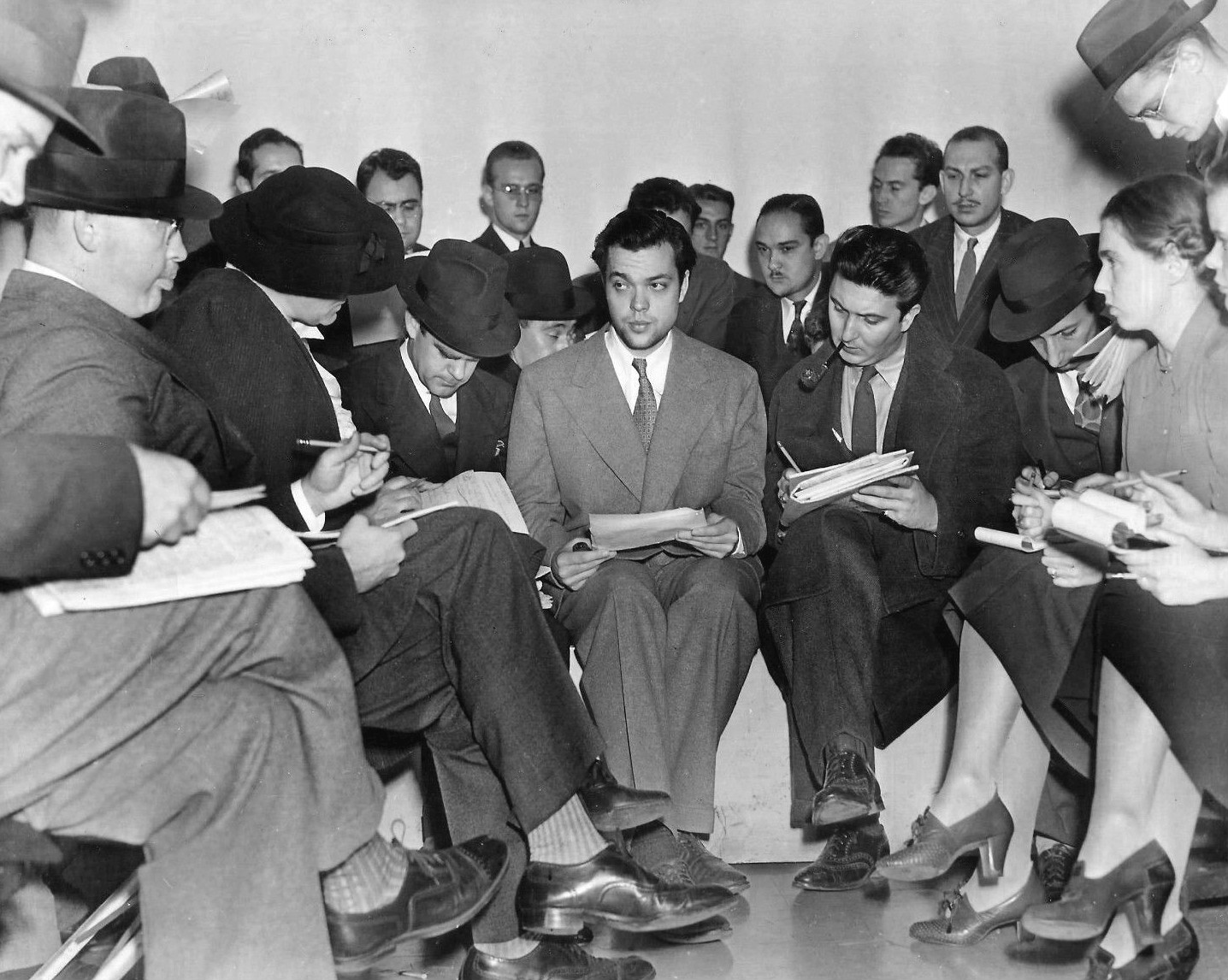 Photo of Orson Welles (center) meeting with reporters after the War of he Worlds radio broadcast. Welles tried to explain that he and his theater company had no idea the broadcast would cause panic. Note the uploaded photo is larger and of better quality than the newsprint photo. A renewal search was done in publications for the years 1965 and 1966. There were no renewals for the newspaper The Express; there's no evidence of current copyright.